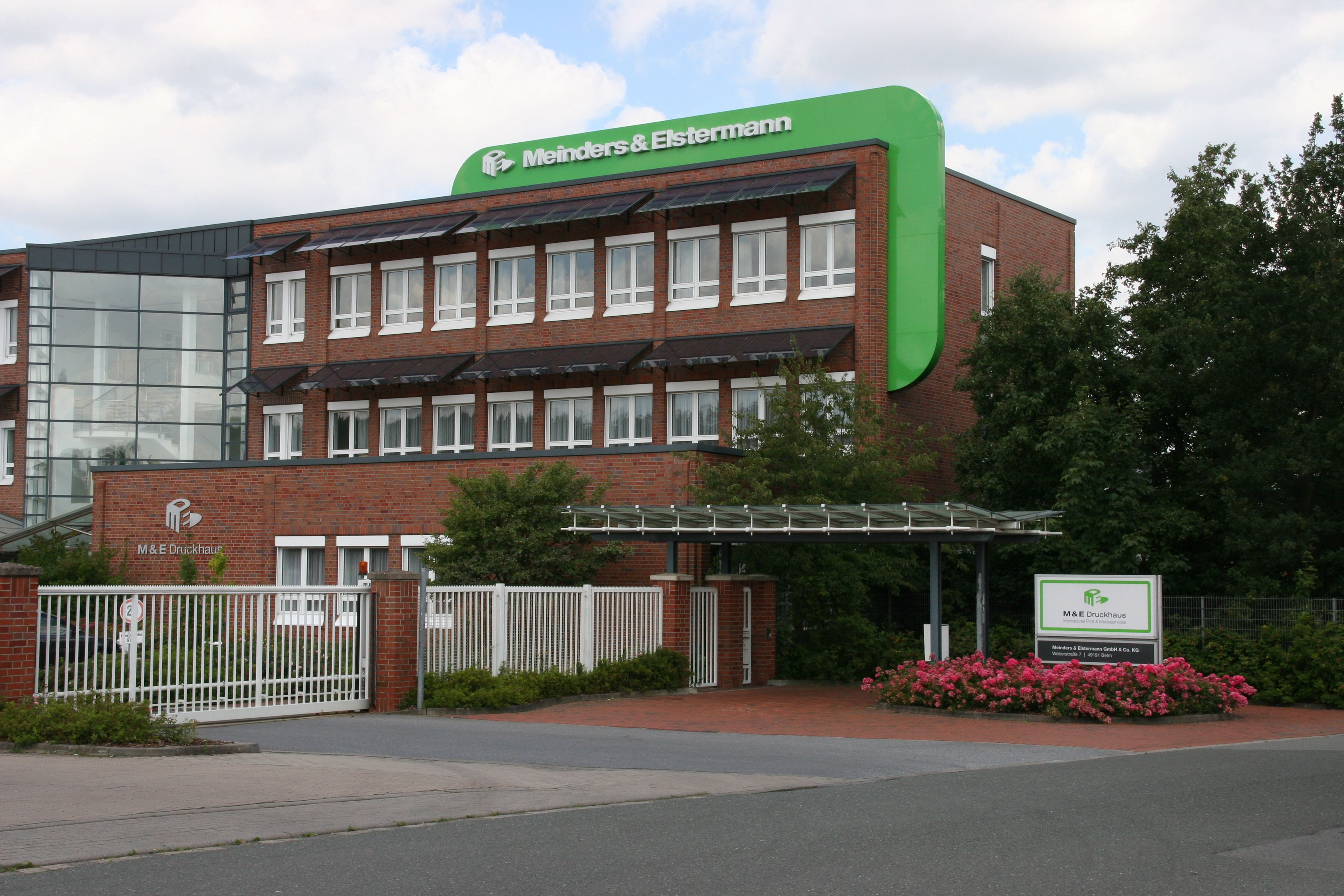 Belm: publishing house Meinders & Elstermann